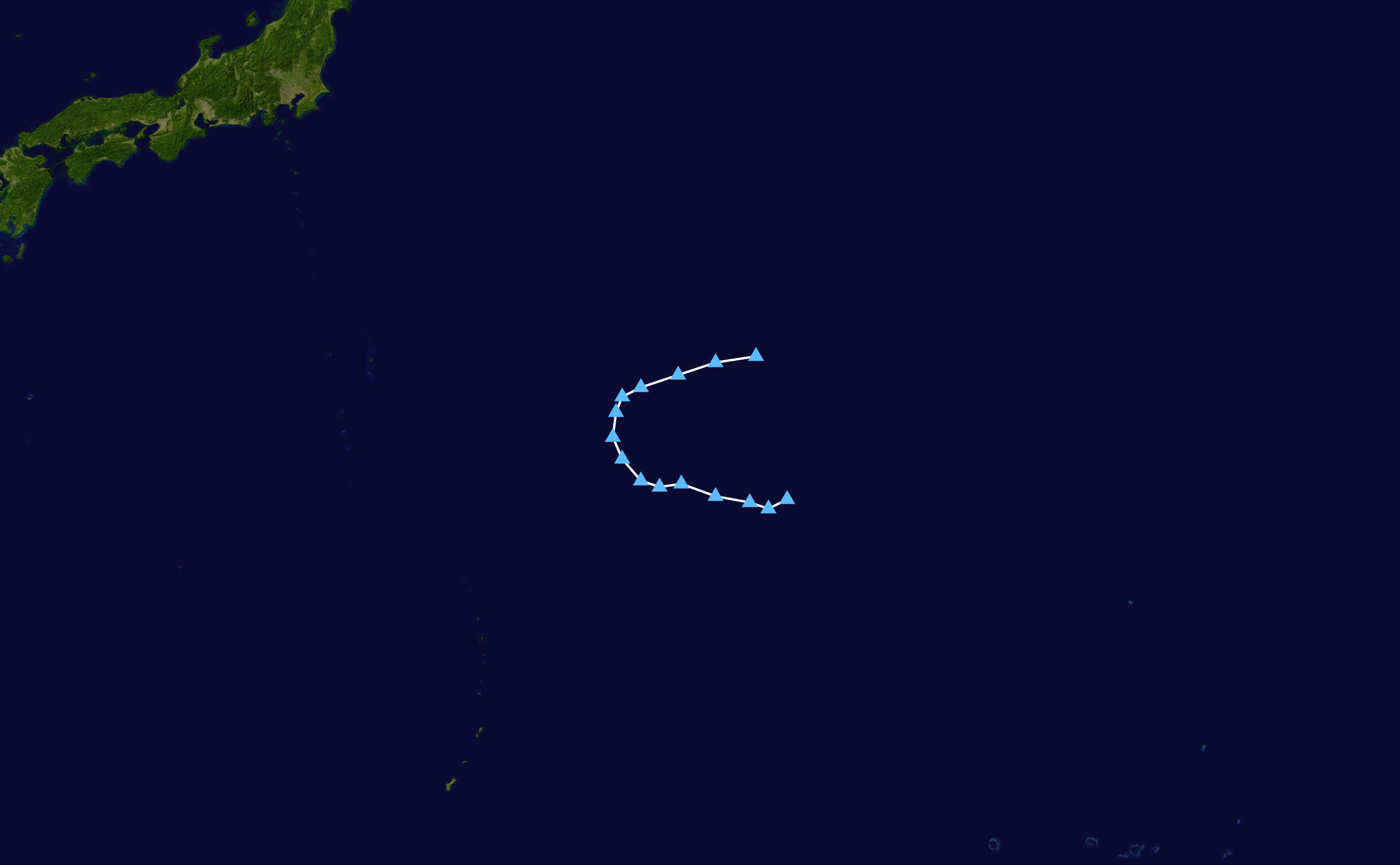 Track map of the 21st tropical depression of the 2019 Pacific typhoon season. The points show the location of the storm at 6-hour intervals. The colour represents the storm's maximum sustained wind speeds as classified in the Saffir–Simpson scale (see below), and the shape of the data points represent the nature of the storm, according to the legend below. Saffir–Simpson scale Tropical depression≤38 mph≤62 km/h Category 3111–129 mph178–208 km/h Tropical storm39–73 mph63–118 km/h Category 4130–156 mph209–251 km/h Category 174–95 mph119–153 km/h Category 5≥157 mph≥252 km/h Category 296–110 mph154–177 km/h Unknown Storm type Tropical cyclone Subtropical cyclone Extratropical cyclone / Remnant low / Tropical disturbance / Monsoon depression